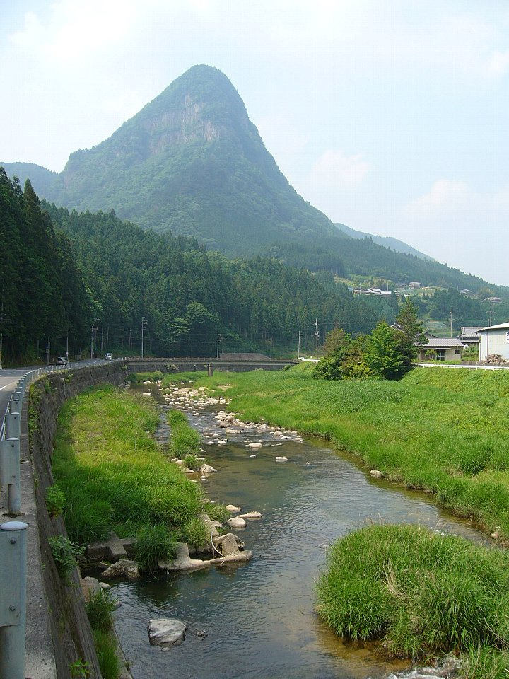 Soni mura, Nara Prefecture, Japan.